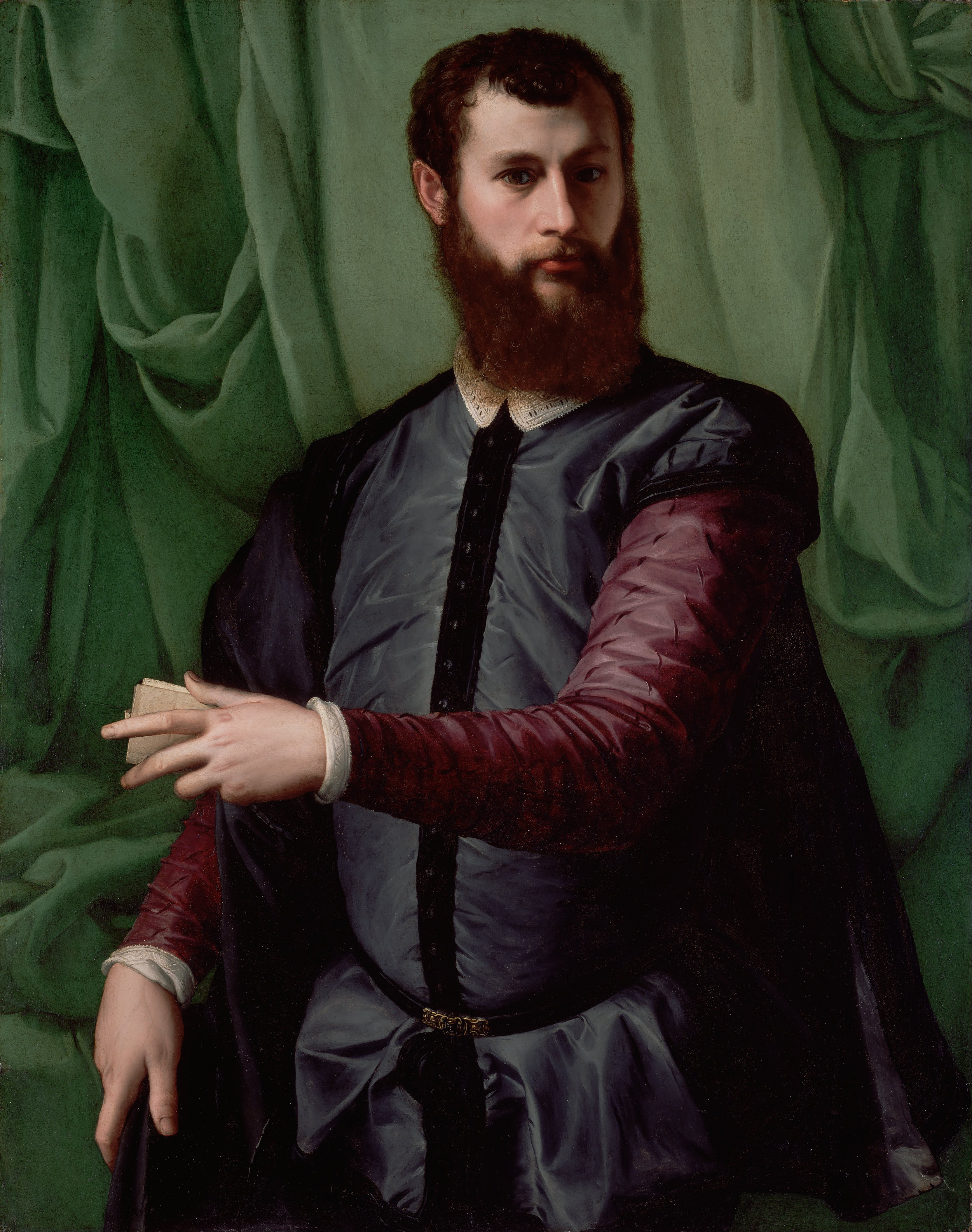 Leonardo Salviati, italian humanist (1540-1589)